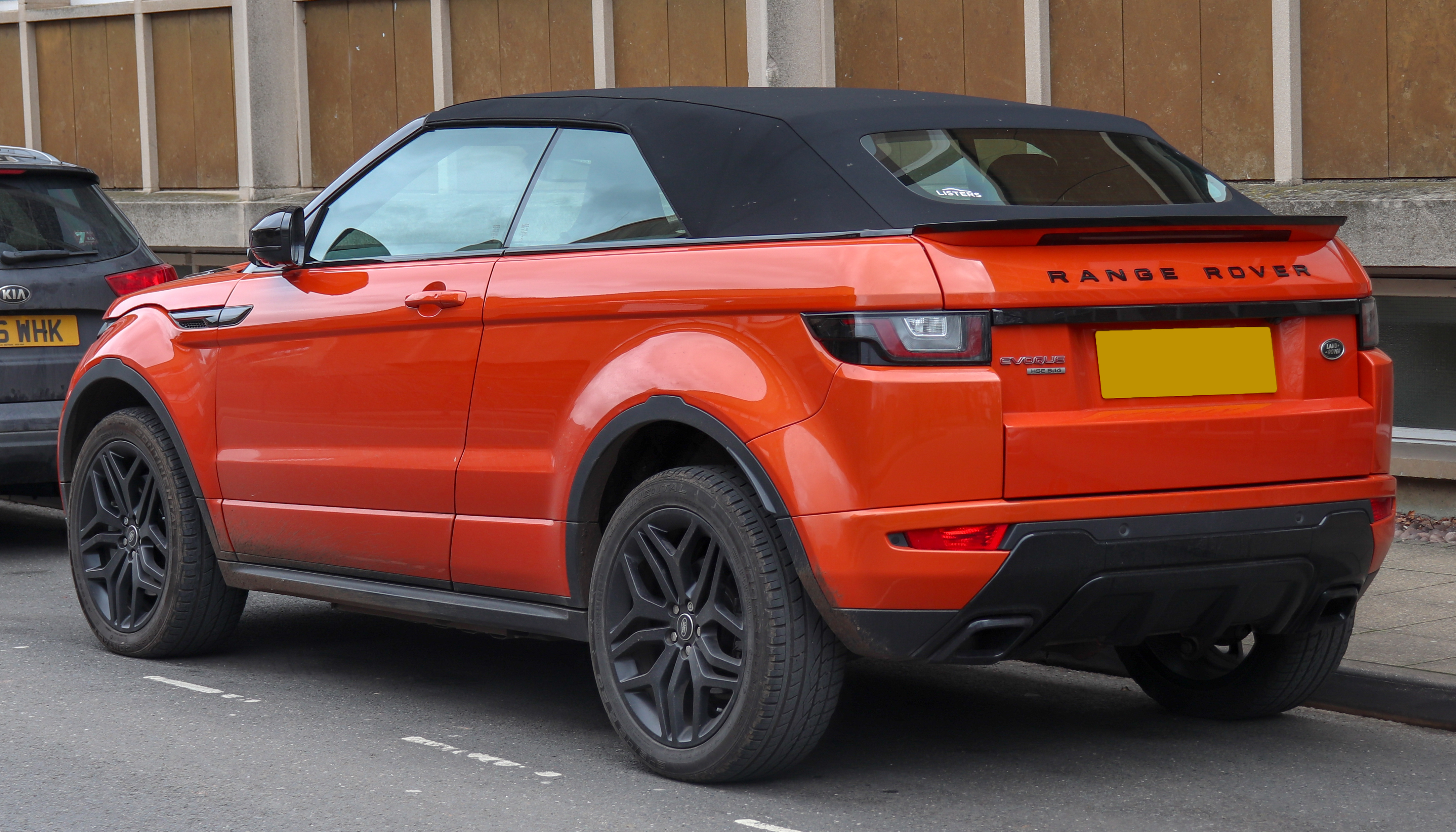 2018 Land Rover Range Rover Evoque Convertible HSE Dynamic SD4 2.0 Rear Taken in Warwick